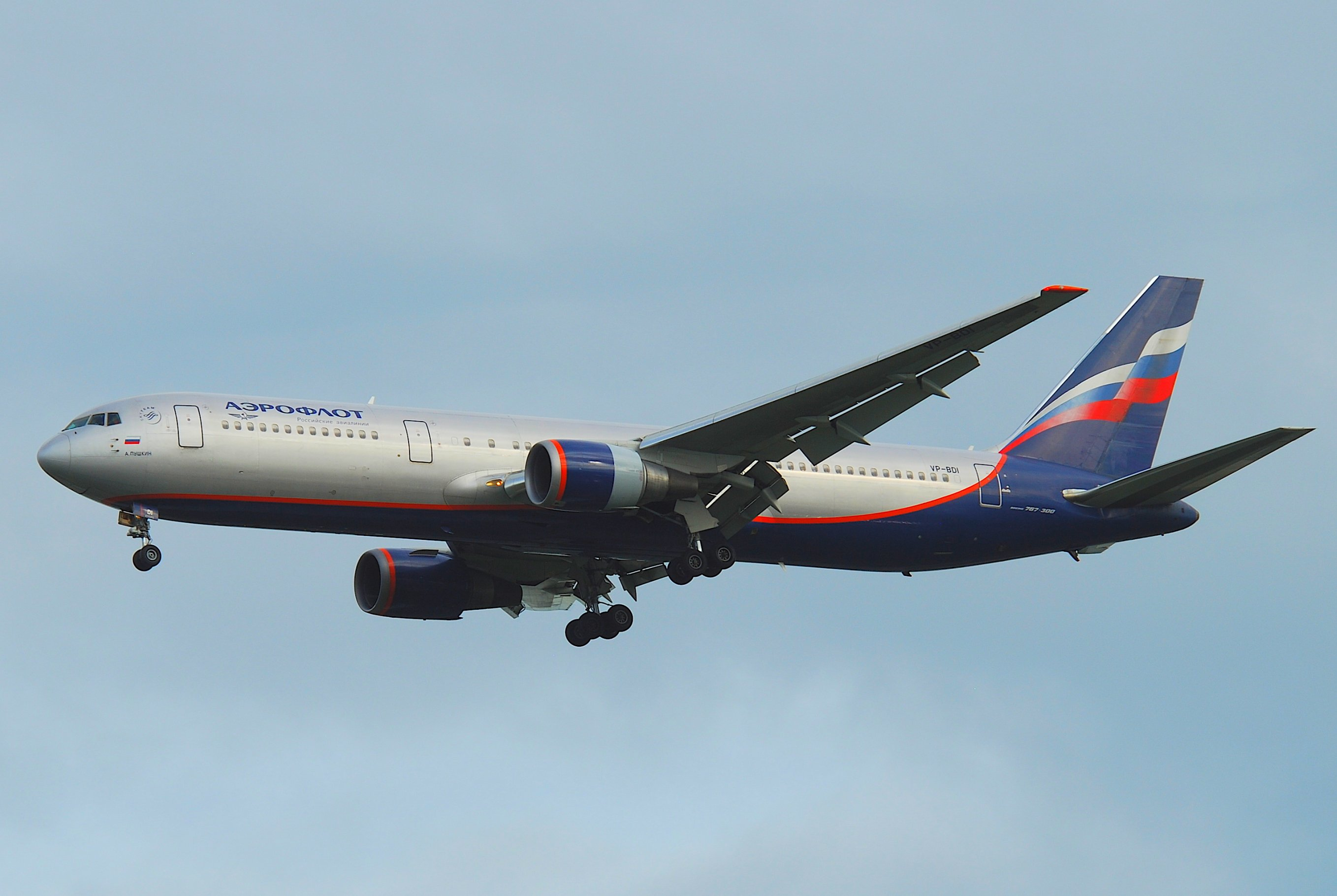 This Boeing 767-38A ER took its first flight on April 27, 2000... 09/05/2000 Air 2000 G-OOAM returned to lessor 15/05/03 - stored at Dublin as N618SH 15/08/2003 Aeroflot VP-BDI leased from GECAS - named Alexander Pushkin